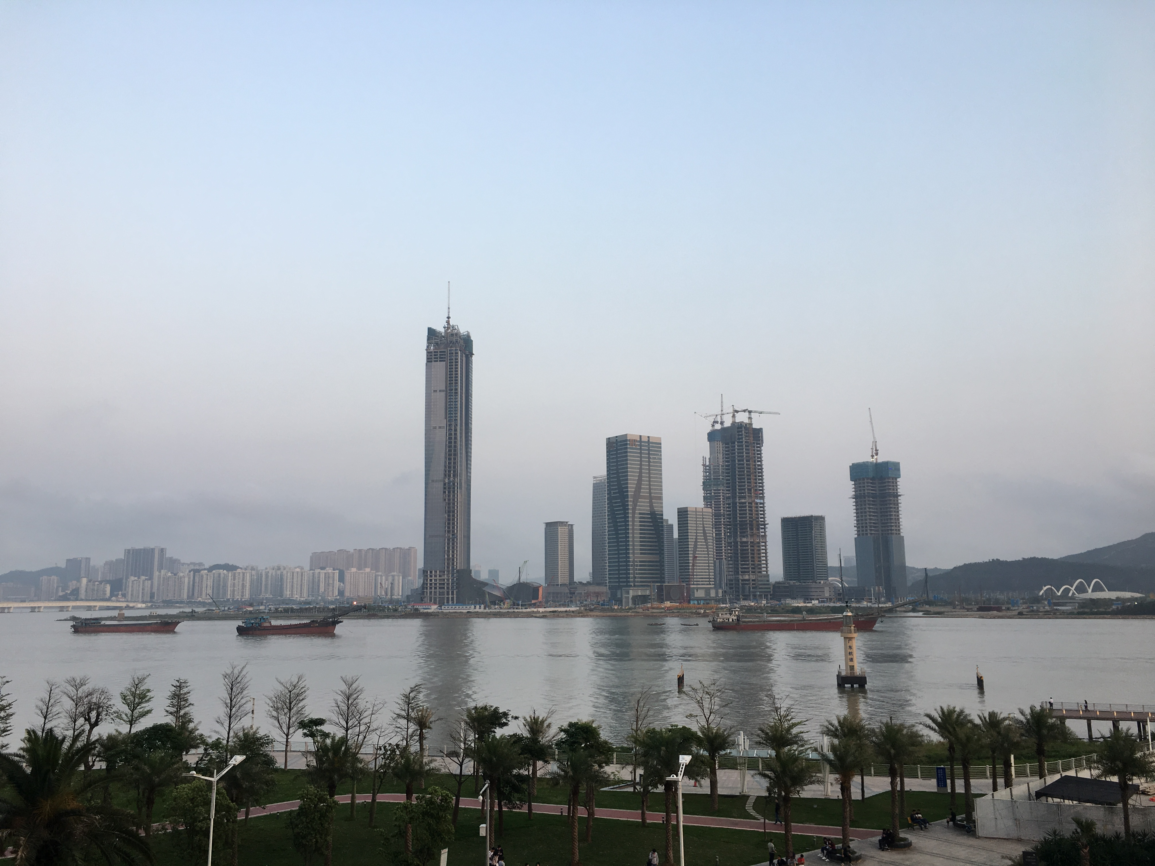 The Financial Island, also the Shizimen CBD, is the skyline of the city.